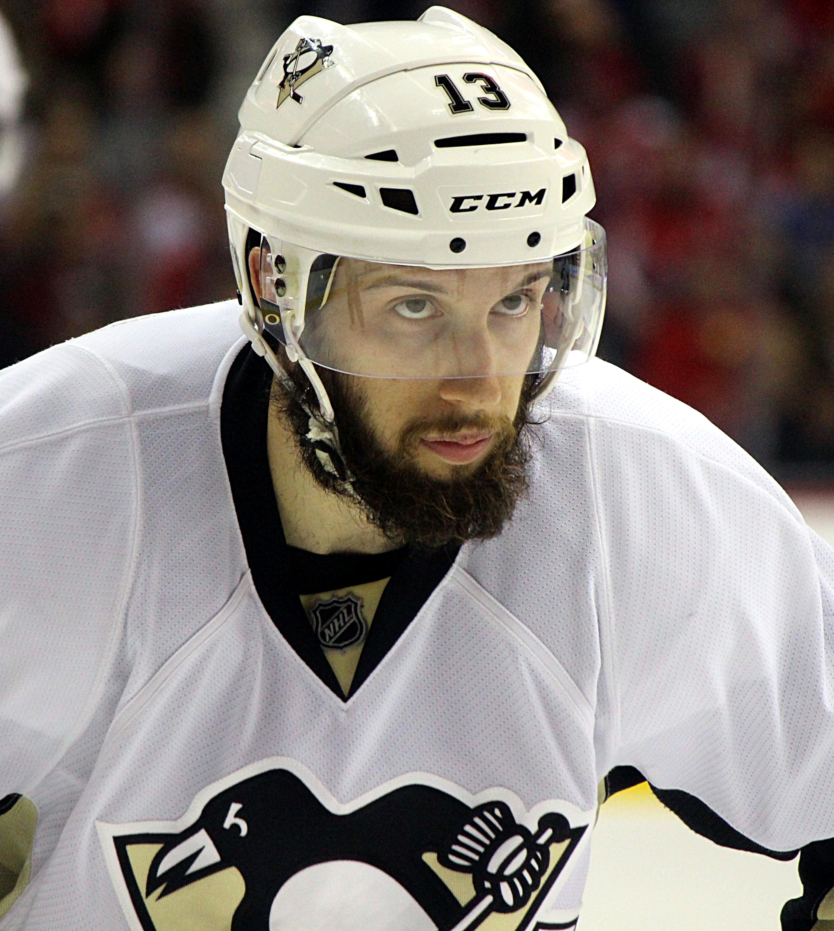 Pittsburgh Penguins forward Nick Bonino during a game against the Washington Capitals, Thursday, April 7, 2016 at Verizon Center in Washington, D.C.